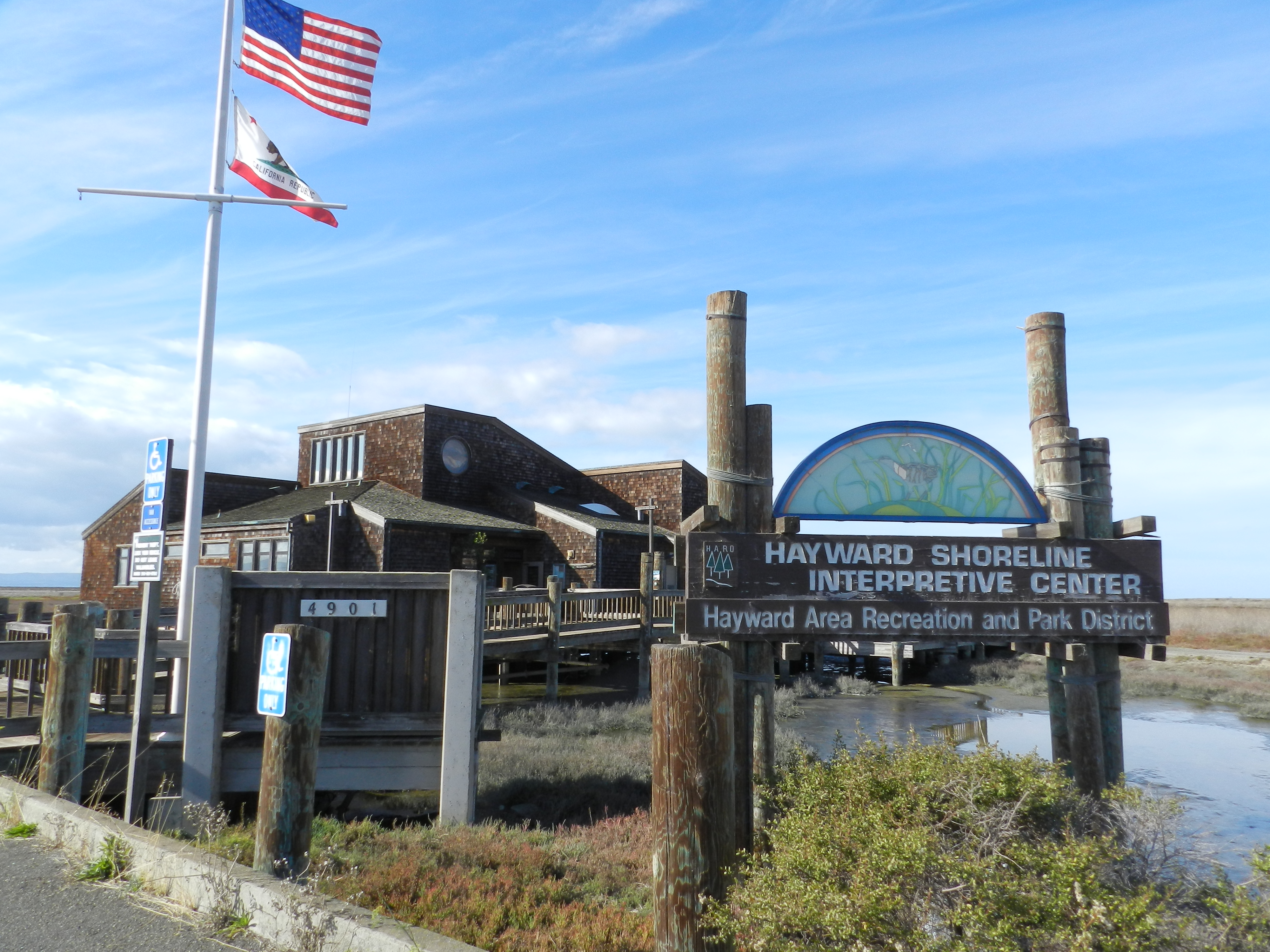 Hayward Shoreline Interpretive Center building, adjacent to highway 92, Hayward, California